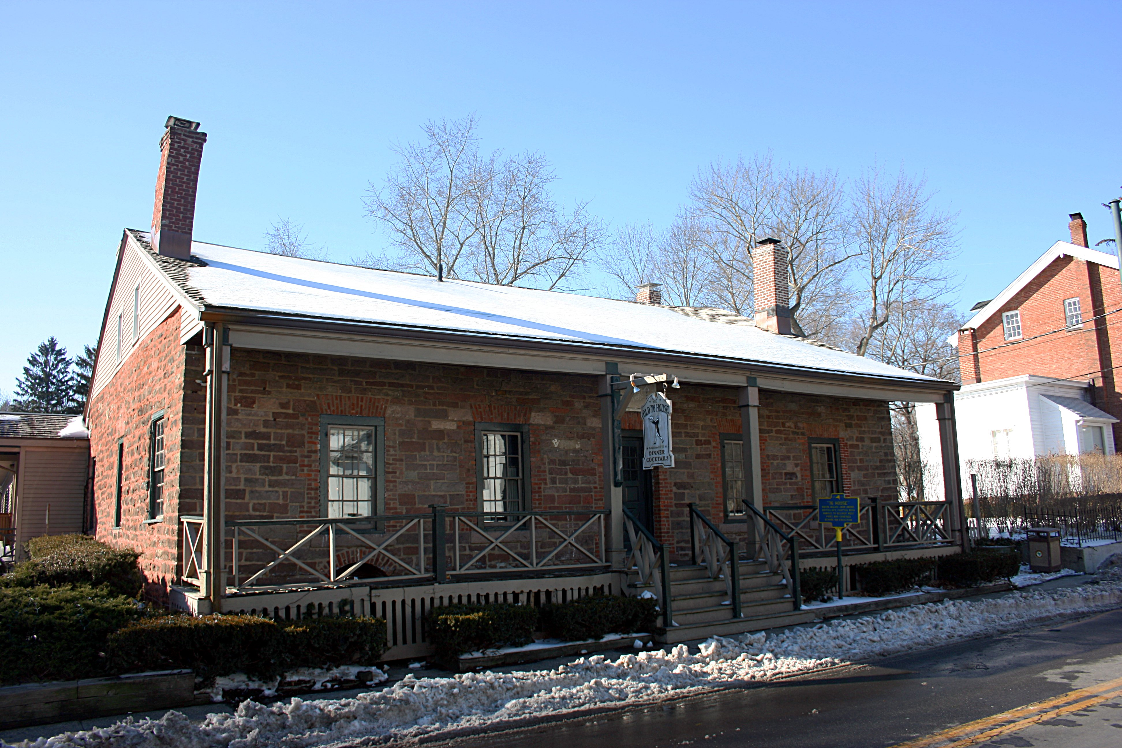 Photograph of the Old '76 House in Tappan, New York, USA